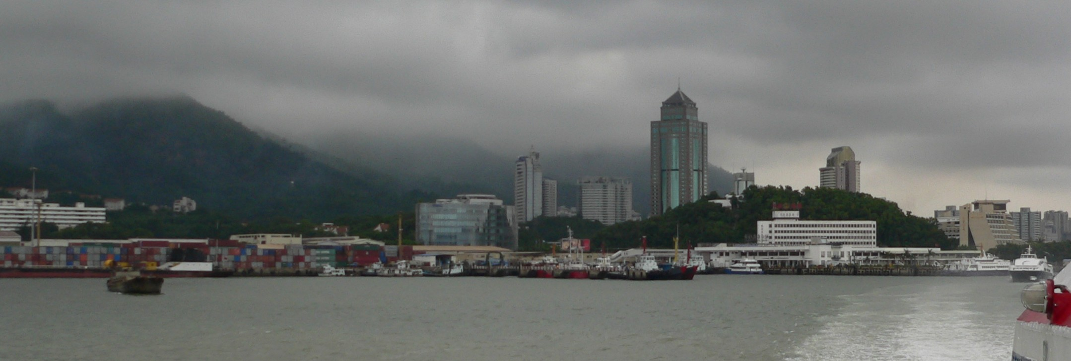 Shekou (China, close to Hong Kong border), seen from the harbour